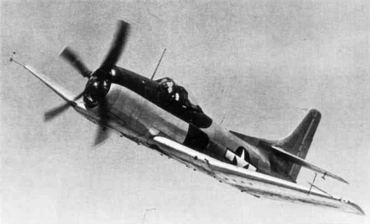 The first production Kaiser-Fleetwings XBTK-1 (BuNo 44313) in flight, circa 1945.